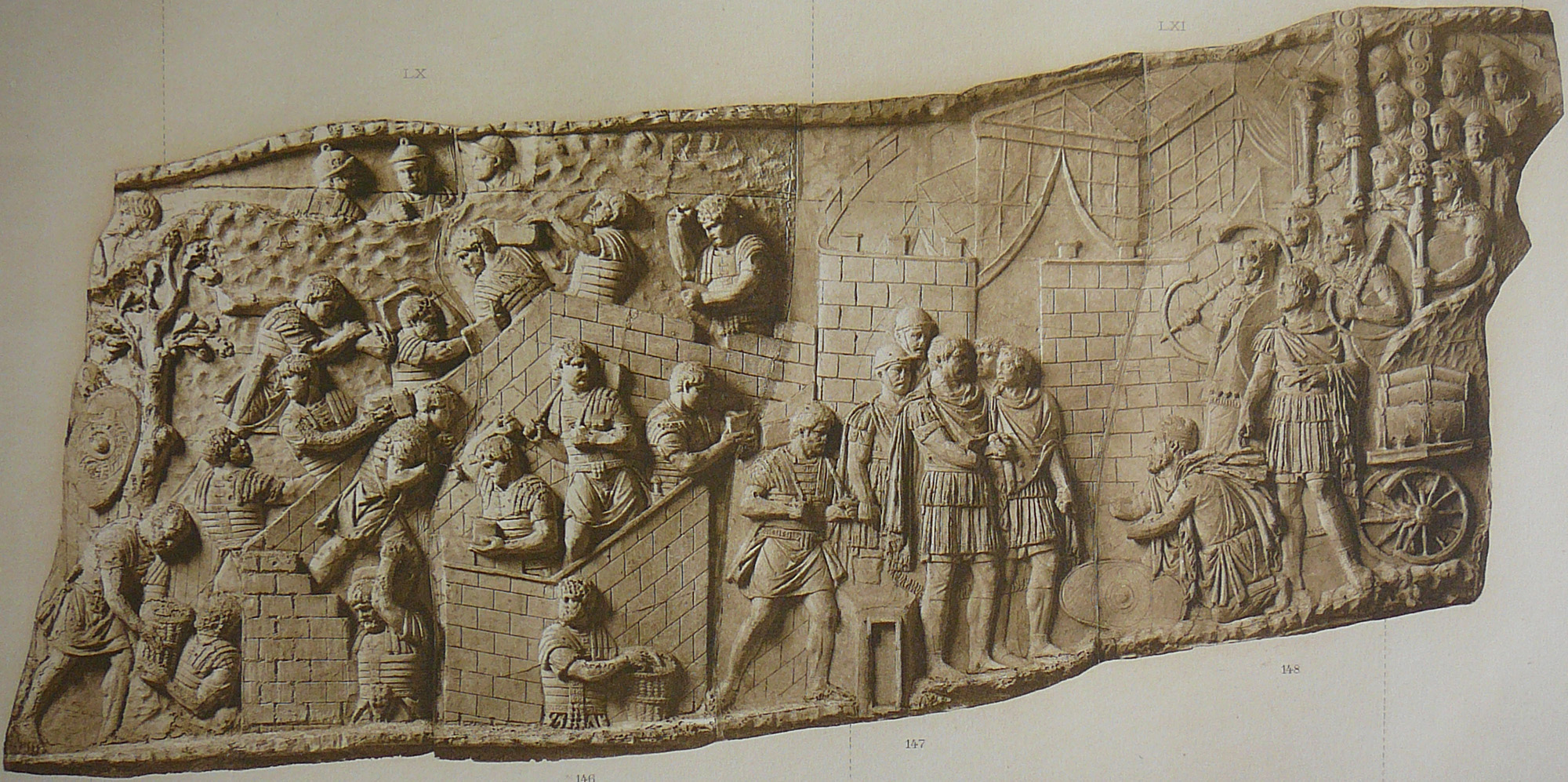 Building a fort (scene LX); reception of a Dacian embassy (scene LXI)